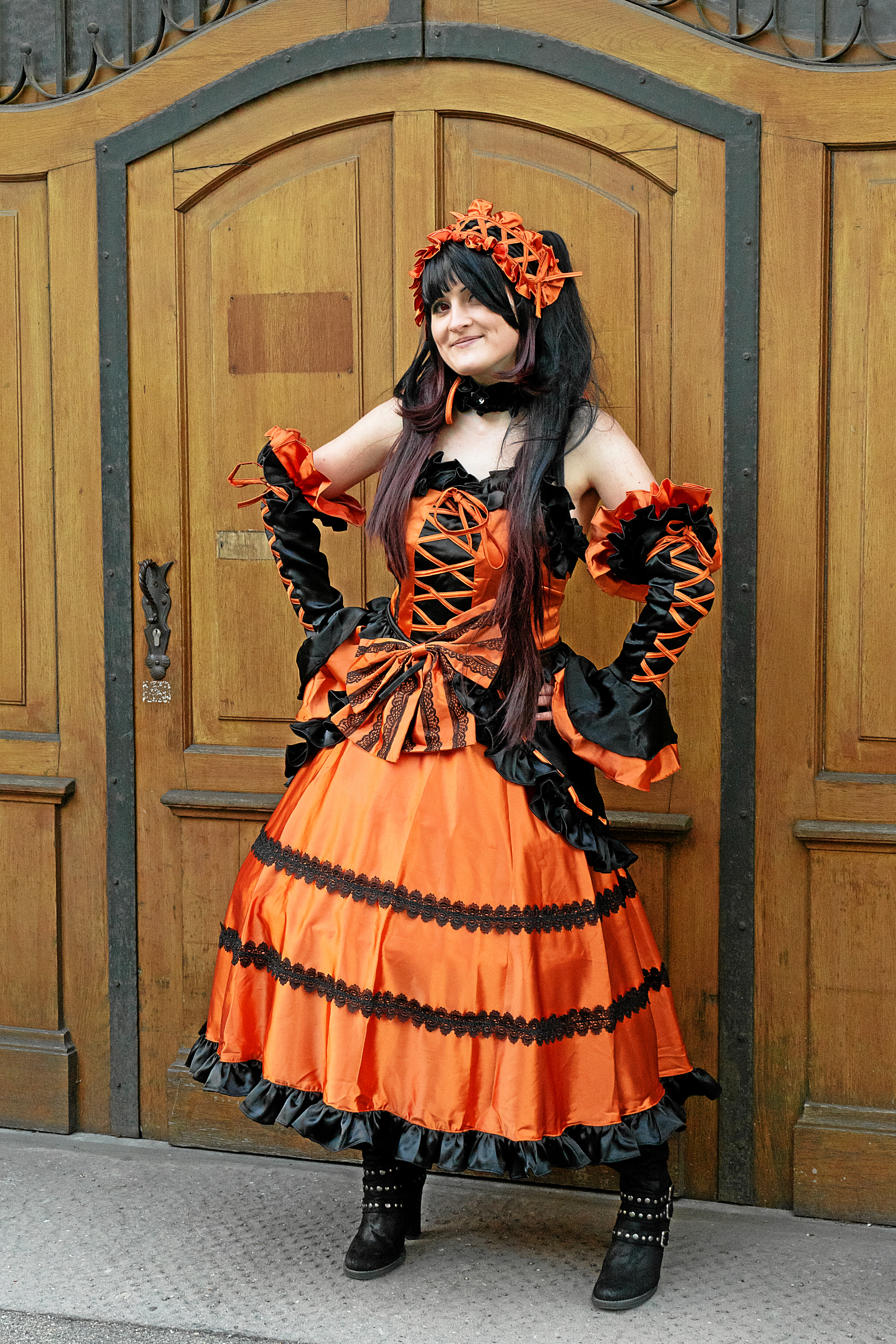 Cosplay of Tokisaki Kurumi from Date A Live in Augsburg.中文（台灣）: 德國奧格斯堡，《約會大作戰》時崎狂三cosplayer。